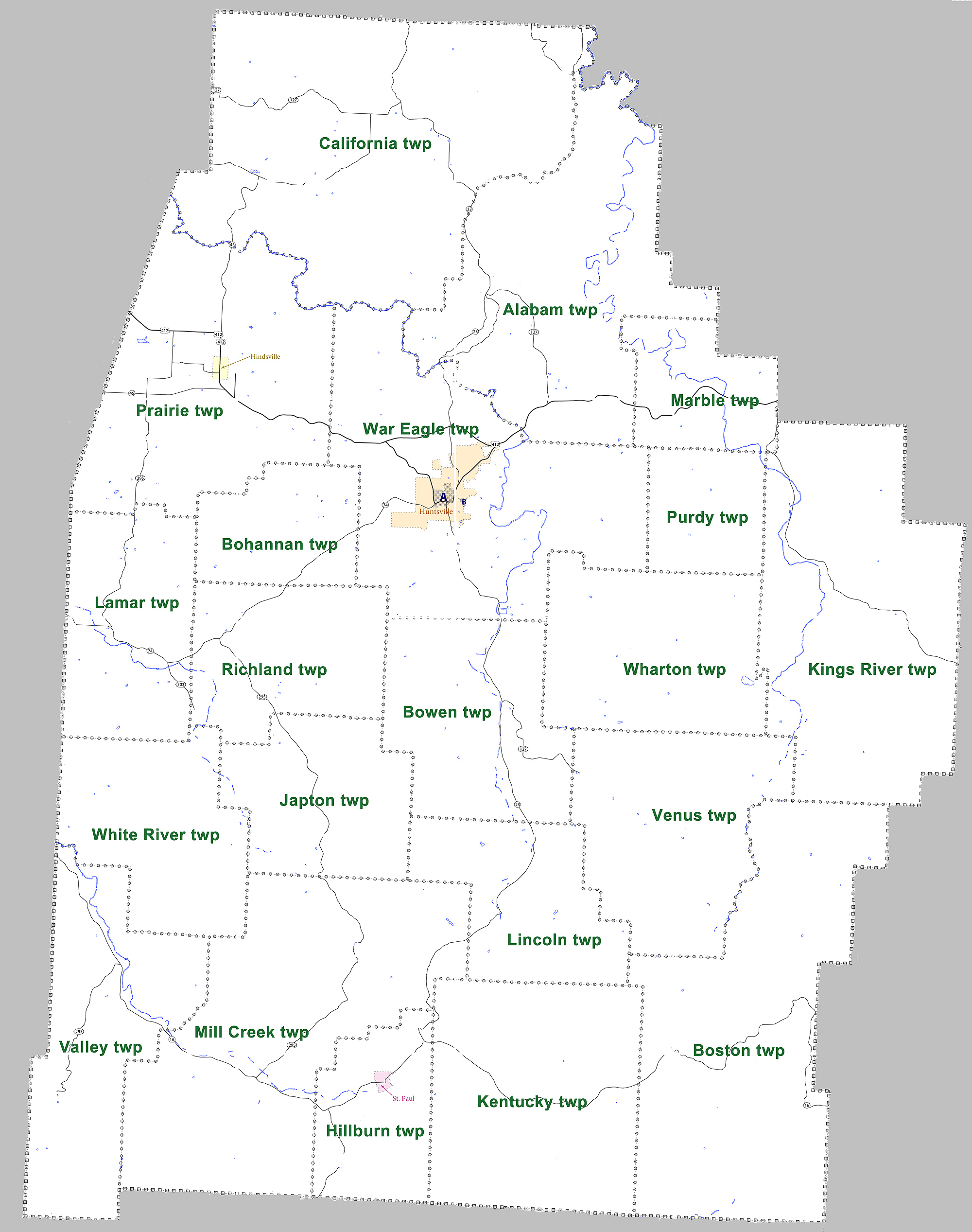 Large version of map showing townships in Madison County, Arkansas. Modified from US census map (for 2010 census) for Madison County, Arkansas